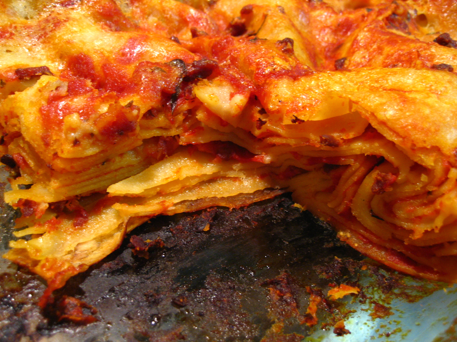 Day forty-four of my 2007 photo journal